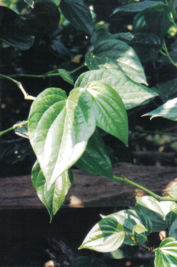 Piper betel (en; betel)'s leaf used in betel chewing photographed in Kamphaeng Phet, Thailand.